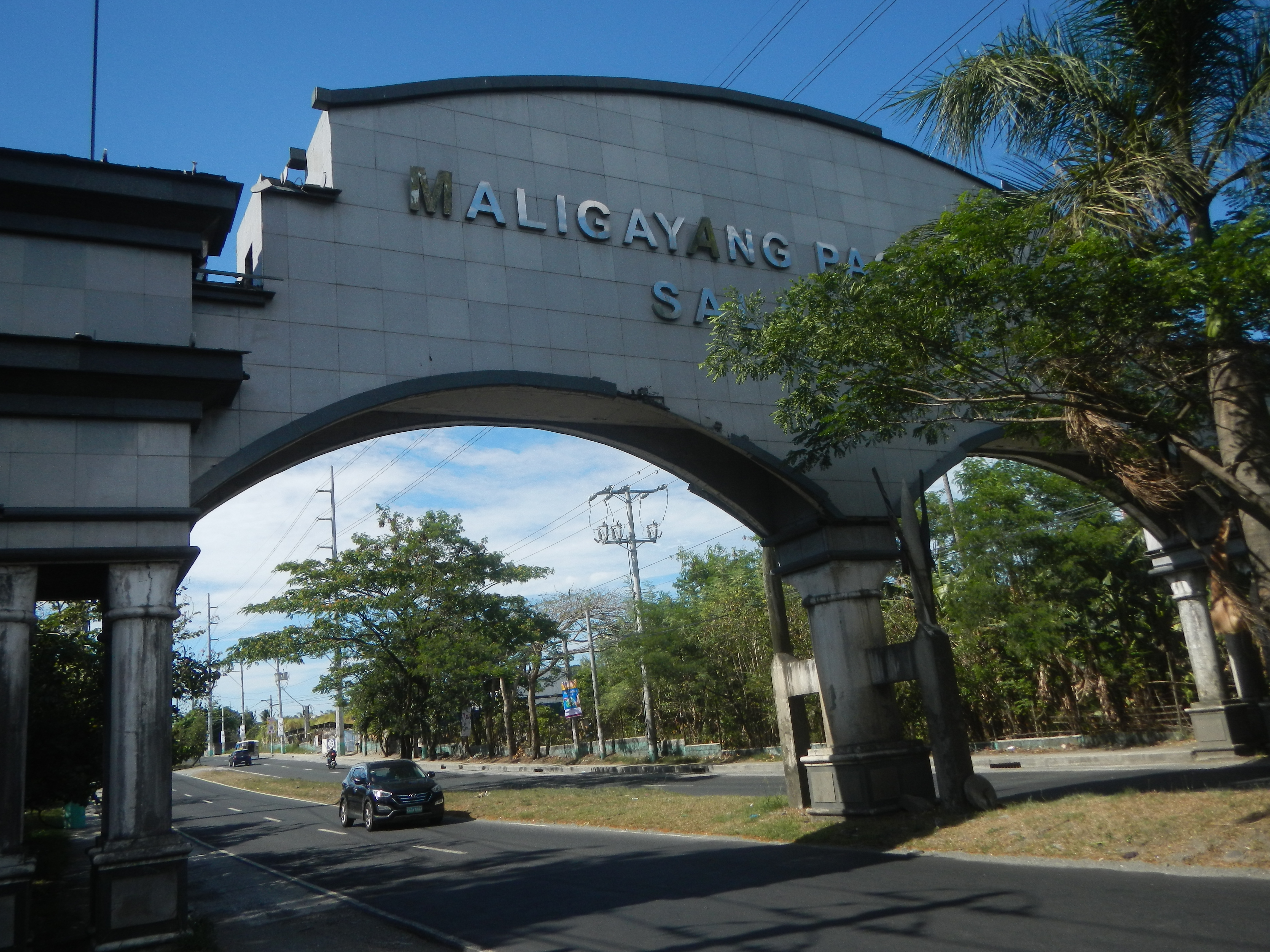 Santa Anastacia, Santo Tomas, Batangas Barangays San Rafael 14°7'42"N 121°9'6"E Santa Anastacia 14°8'6"N 121°8'6"E Santo Tomas, Batangas Light Industry and Science Park 14°8'6"N 121°8'51"E along Maharlika Highway (Santo Tomas, Batangas section) Pan-Philippine Highway; bounded by the Welcome arch-signs of Batangas Province - Viga Bridge I (Maharlika Highway, Santa Anastacia, Santo Tomas, Batangas & Makiling, Calamba) in Makiling 14°9'8"N 121°8'17"E Barangays Makiling, Calamba Milagrosa Turbina, Calamba Poblacion I, Calamba Poblacion II, III, IV, VI and VII, Calamba and Poblacion V, Calamba Calamba, Laguna Poblacion 14°12'32"N 121°9'46"E Calamba Poblacion (Note: Judge Florentino Floro, the owner, to repeat, Donor Florentino Floro of all these photos hereby donate gratuitously, freely and unconditionally Judge Floro all these photos to and for Wikimedia Commons, exclusively, for public use of the public domain, and again without any condition whatsoever).